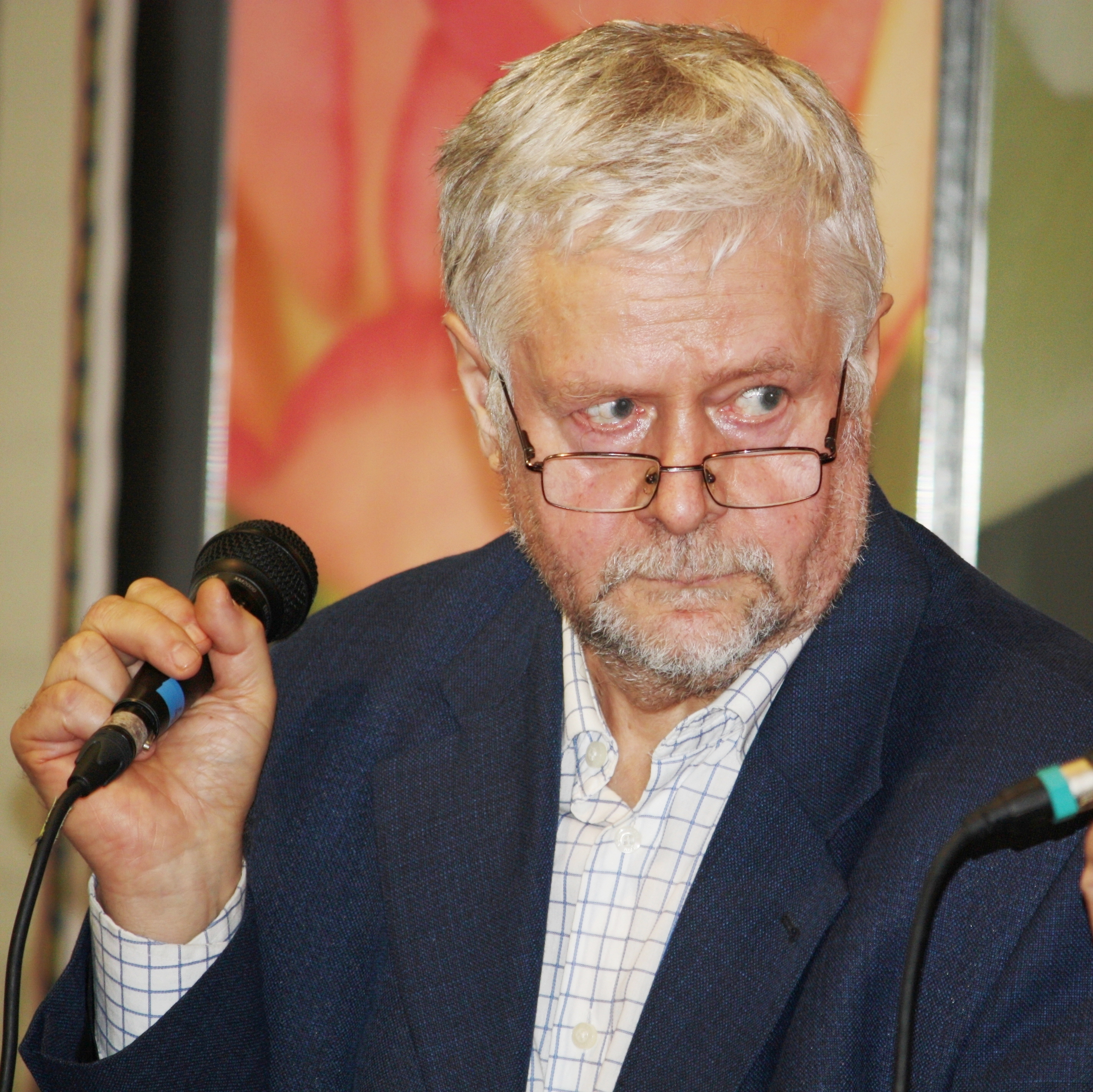 Finnish literature researcher and writer Markku Envallat the Helsinki Book Fair 2010.